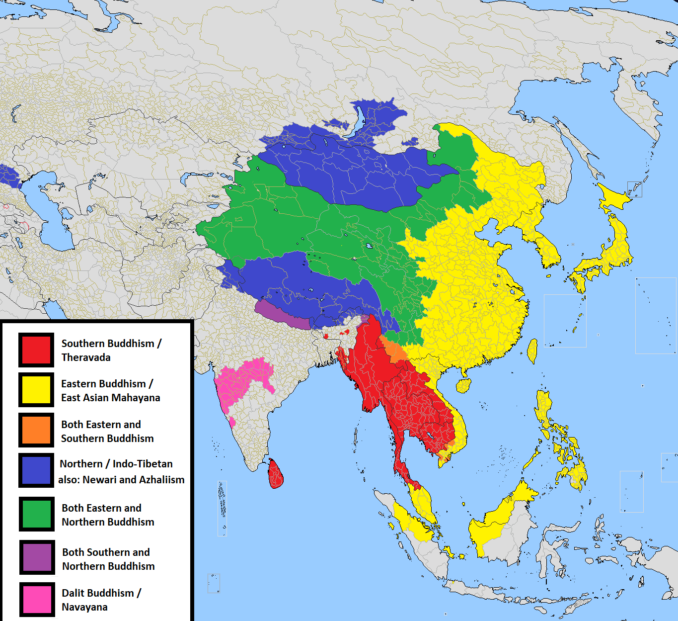 Map of the main modern Buddhist sects, source is Rupert Gethin's the Foundations of Buddhism, pg xvi